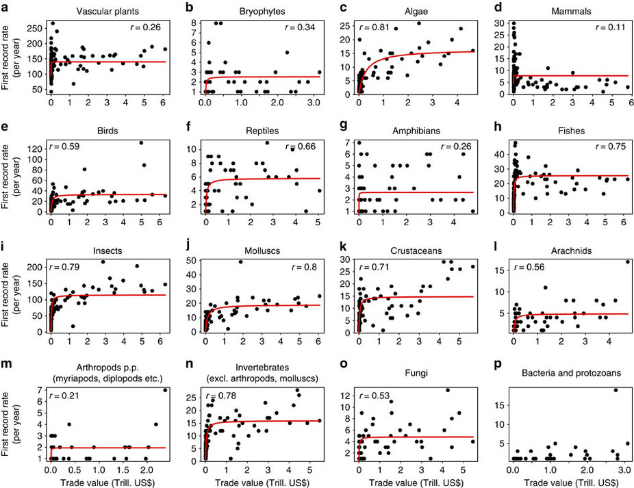 Relationships between the values of annually imported commodities and first record rates of the same regions for all taxonomic groups separately (a–p). Each dot represents a single year during 1870–2000, depending on data availability. Following previous studies ( Costello, C., Springborn, M., McAusland, C. & Solow, A. Unintended biological invasions: Does risk vary by trading partner? J. Environ. Econ. Manage. 54, 262–276 (2007). - - - Levine, J. M. & D’Antonio, C. M. Forecasting biological invasions with increasing international trade. Conserv. Biol. 17, 322–326 (2003)) , a Michaelis–Menten curve (lines) was fitted to test for an improved fit using a nonlinear relationship with an attenuation of first record rates at large import values. The goodness-of-fit between observed data and the fitted curve is indicated by the Pearson’s correlation coefficient given in the upper left corner of sub-panels, except for bacteria and protozoans, where the fitting function did not converge.